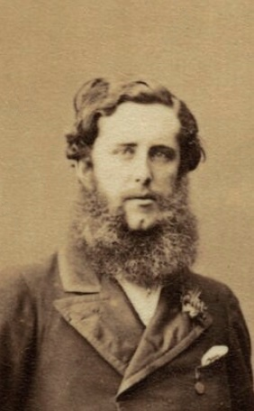 The Earl of Lincoln (Henry Pelham Alexander Pelham-Clinton, 6th Duke of Newcastle-under-Lyne), albumen print (86 mm x 56 mm) purchased in 1949 (NPG Ax7415).